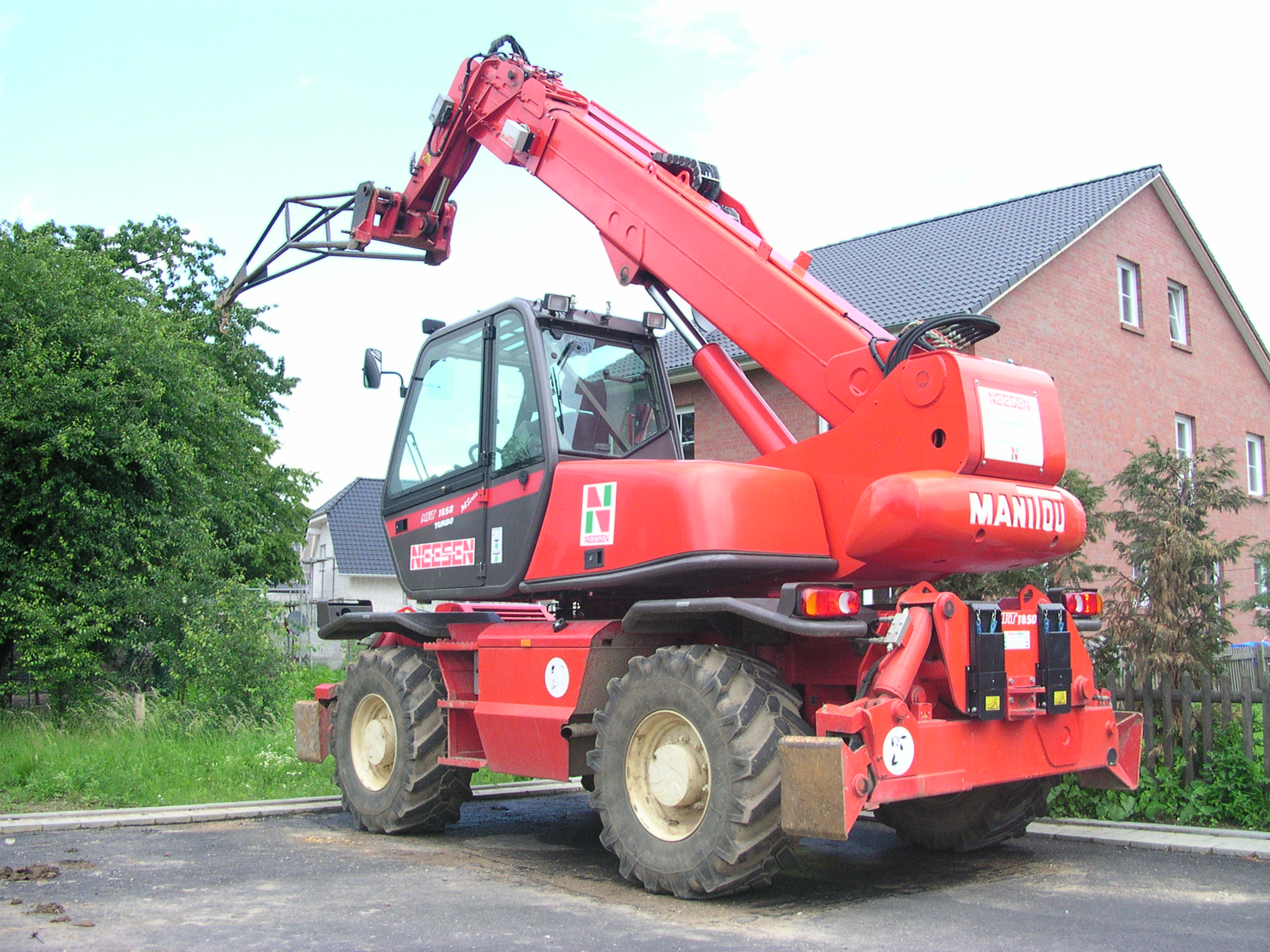 MANITOU MRT 1850 M series. Telescopic handler with crane functionality. Capacity: 4999 kg. Maximum Lift Height: 17.70 m. Maximum Forward Reach: 15.12 m. Reach with 1 Tonne: 13 m